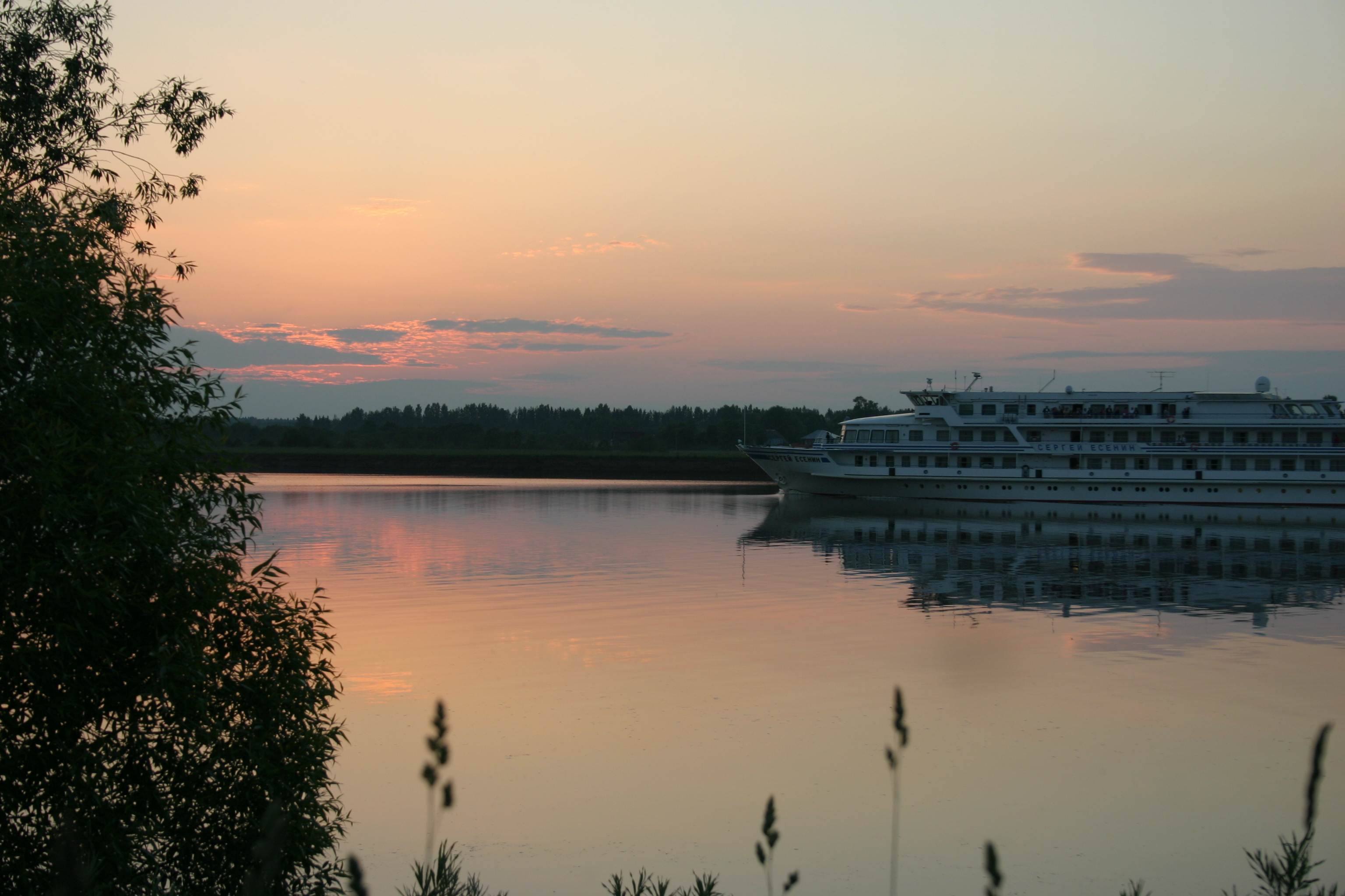 Sunset at Dubna.